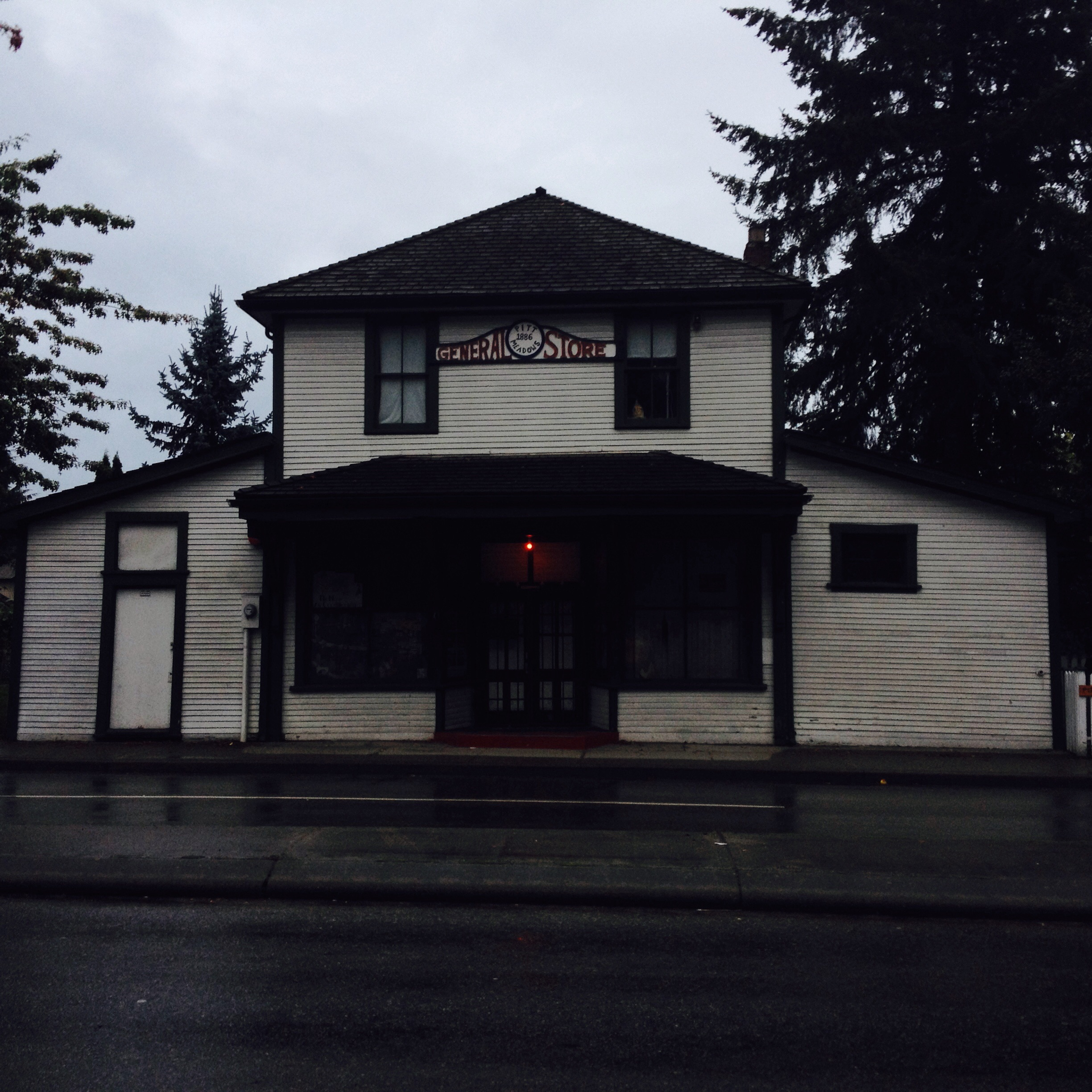 Pitt Meadows General Store and Post Office